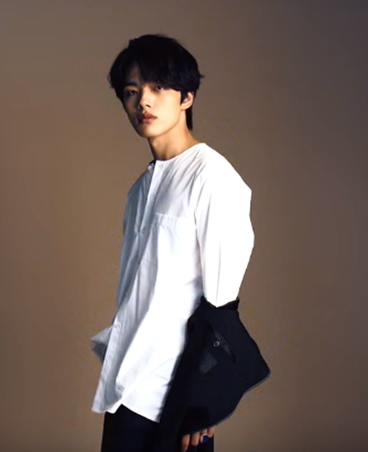 Yeo Jin-goo for Marie Claire Korea Magazine April Issue 2016.